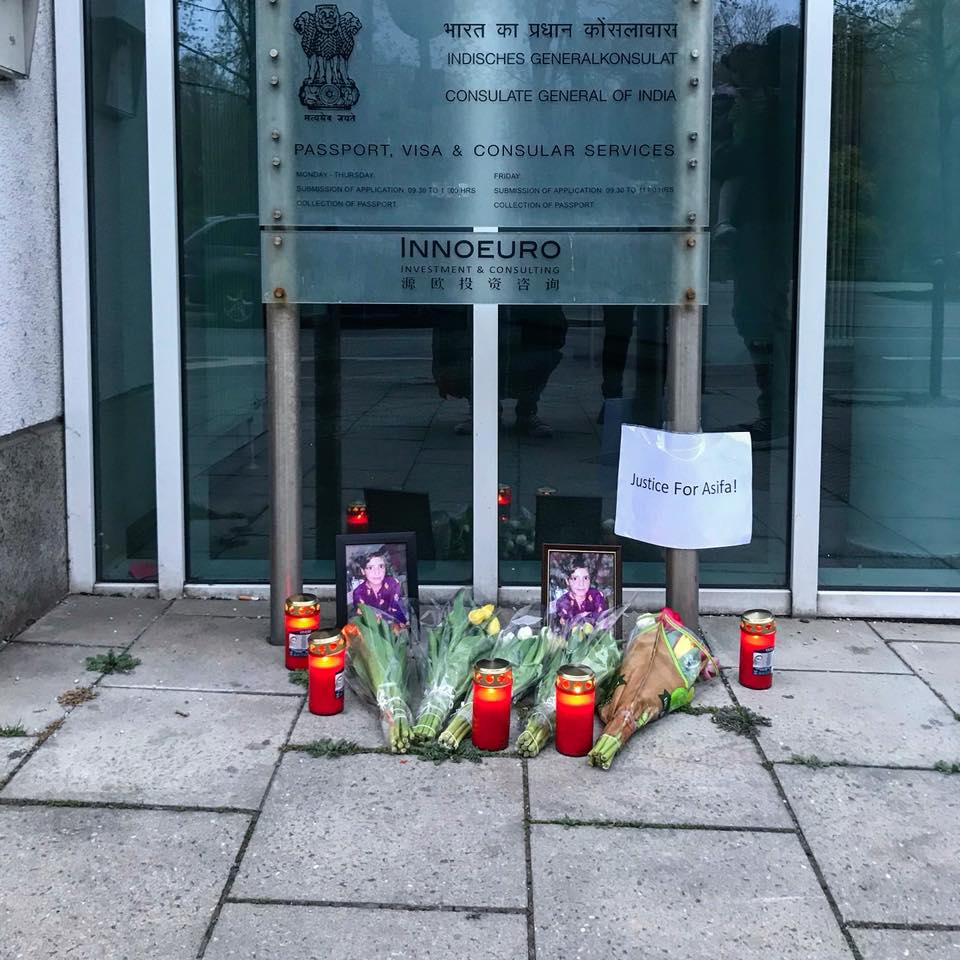 Memorial for the Kathua Rape Case at the Indian Consulate in Munich, Germany organised by Indian expats in the city.